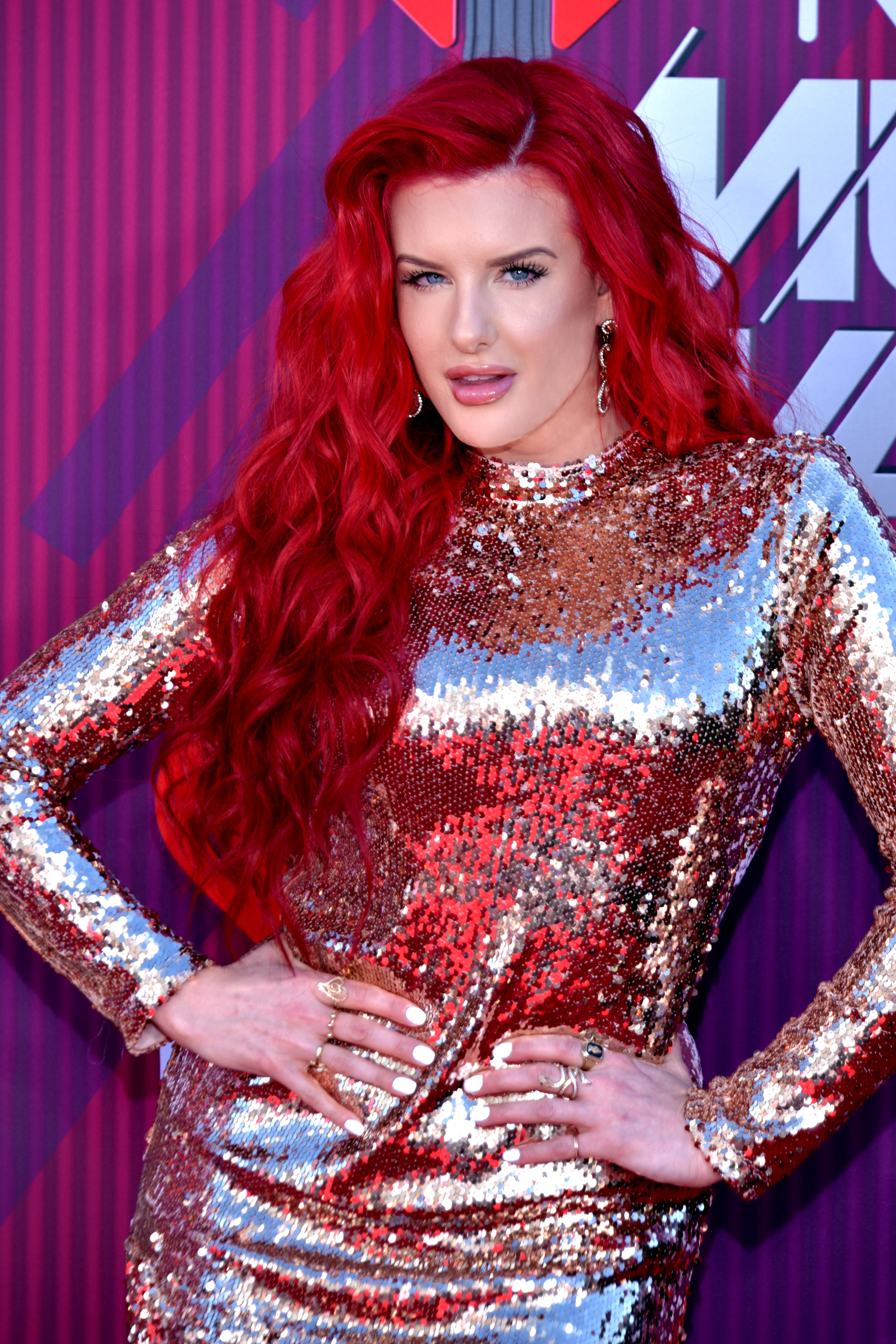 Justina Valentine at the 2019 iHeartRadio Music Awards in Los Angeles California on March 14, 2019 - Photo by Glenn Francis of